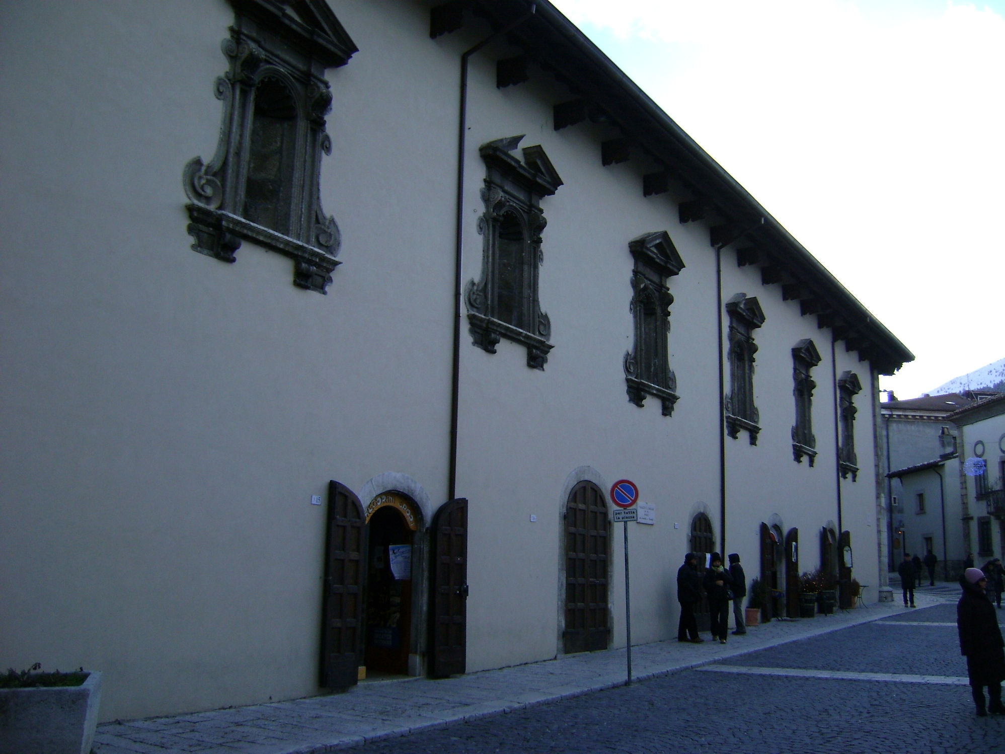 Fanzago palace, in Pescocostanzo, in the province of Chieti, Abruzzo